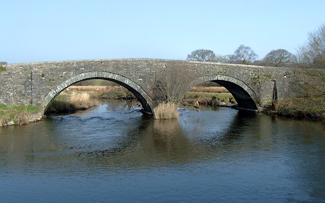 Twin arches across the Afon Teifi, Pont Llanio, Ceredigion The river here has been famous for the quality of its fishing (including salmon), especially when the nearby (closed in 1970) milk factory used to dispose of "stuff" in the river years ago.